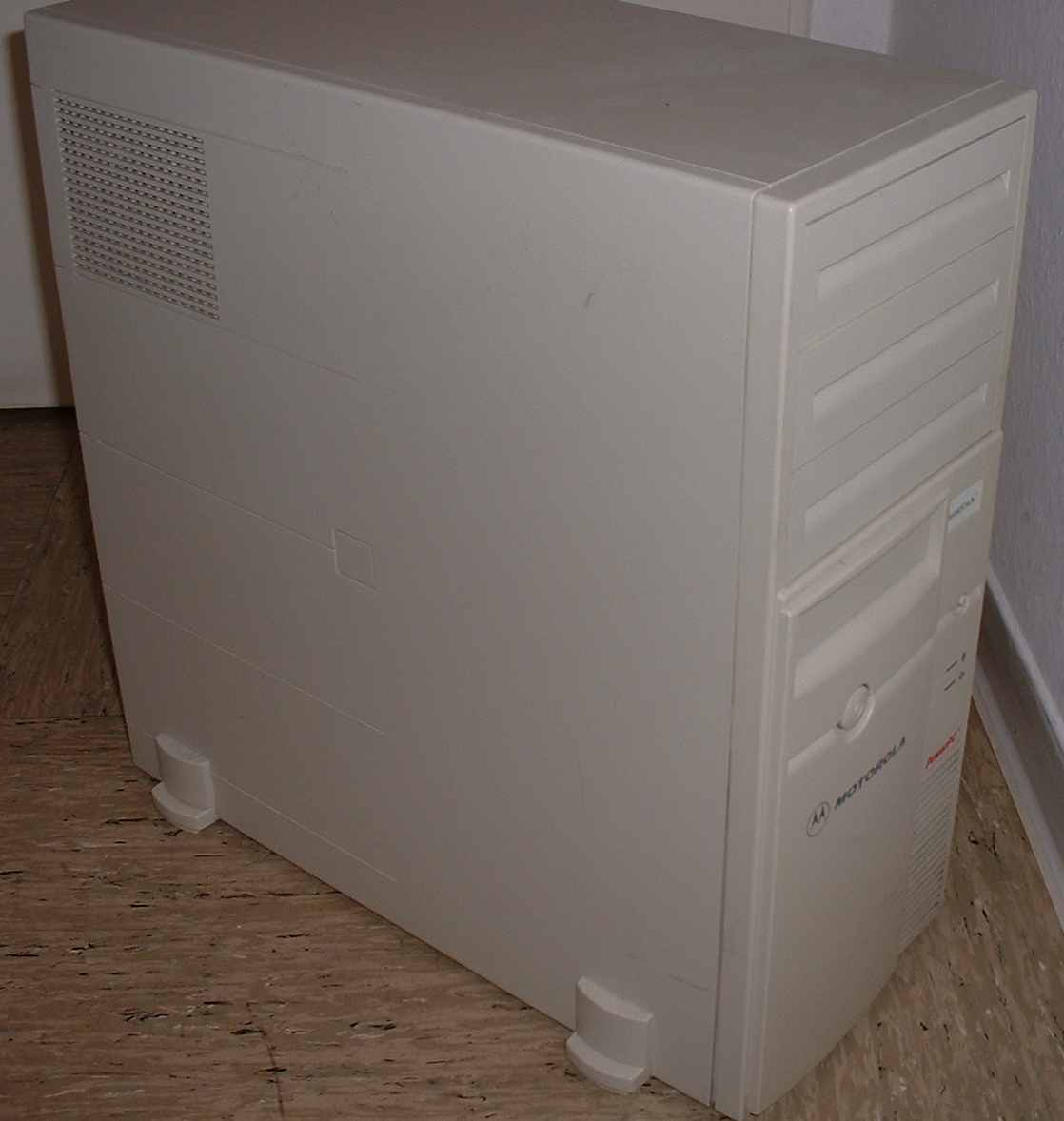 Front of a Motorola Powerstack II. It is a PPC PreP machine with Openfirmware, 64 MB RAM and 300 Mhz PPC CPU.